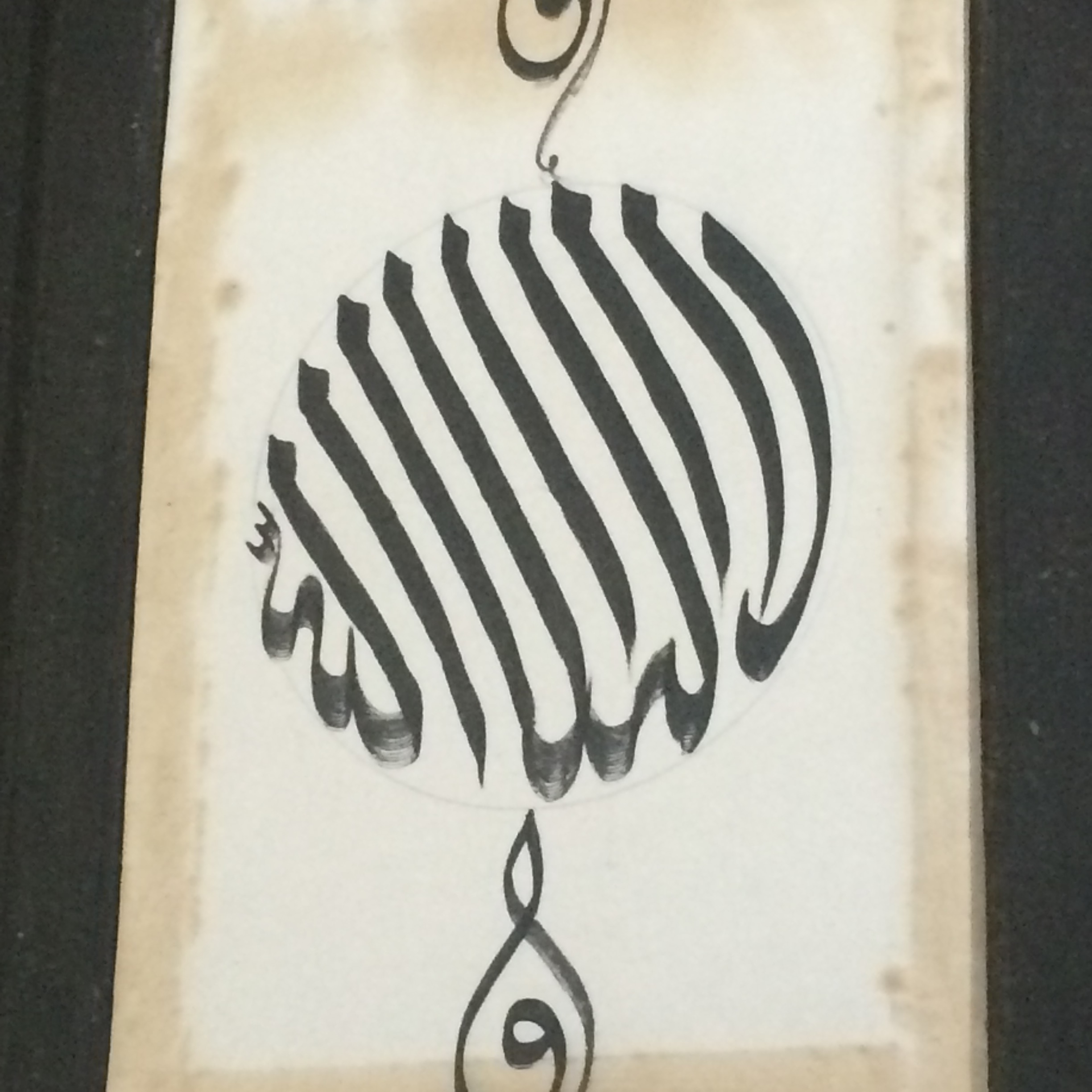 Ṣīnī-style Arabic calligraphy of the first šahādaḧ (lā 'ilāha illā allāh لا اله الا الله "There is no god but God") photographed at the Great Mosque of Xi'an